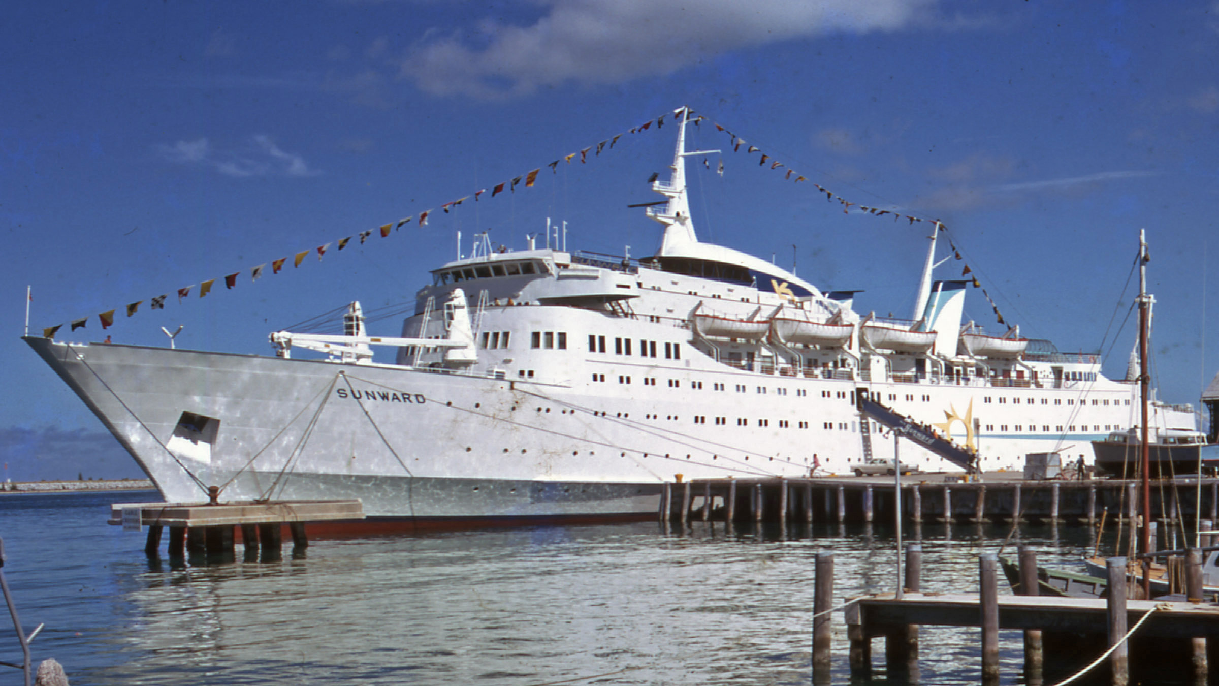 Cruise ship Sunward at Pier A in 1970. Photo by Raymond L. Blazevic.